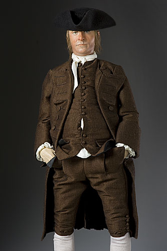 Historical Mixed Media Figure of Samuel Adams produced by artist/historian George S. Stuart and photographed by Peter d'Aprix. This image, from the George S. Stuart Gallery of Historical Figures® archive ( is provided for all uses with appropriate attribution. Any derivatives must be shared in the same manner. Contributor mharrsch is webmaster for the gallery site.